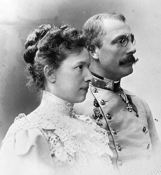 Archduke Franz Salvator of Austria-Tuscany (1866-1939) and Archduchess Marie Valerie of Austria (1868-1924)